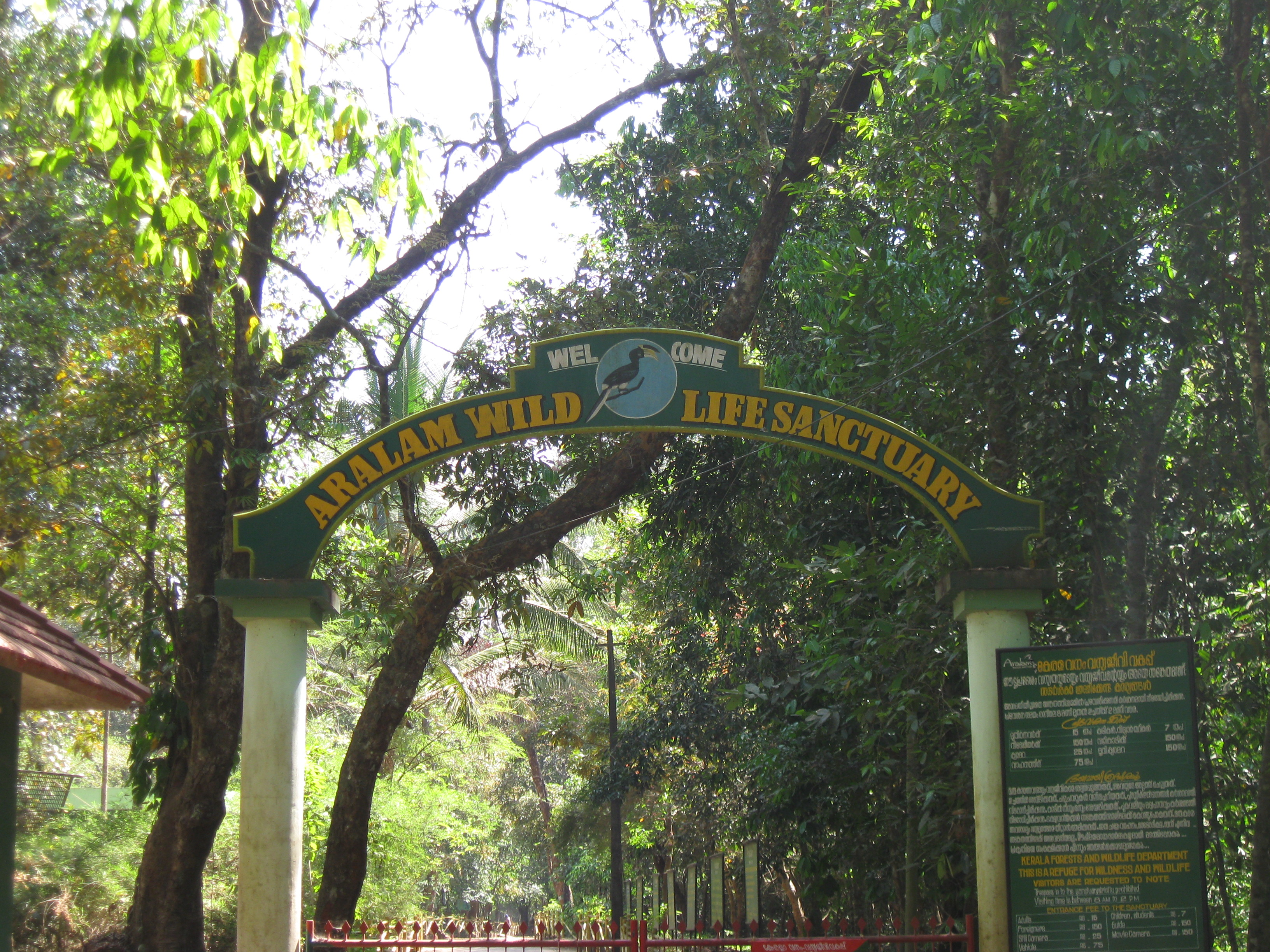 Aralam wild life sanctuary entry gate